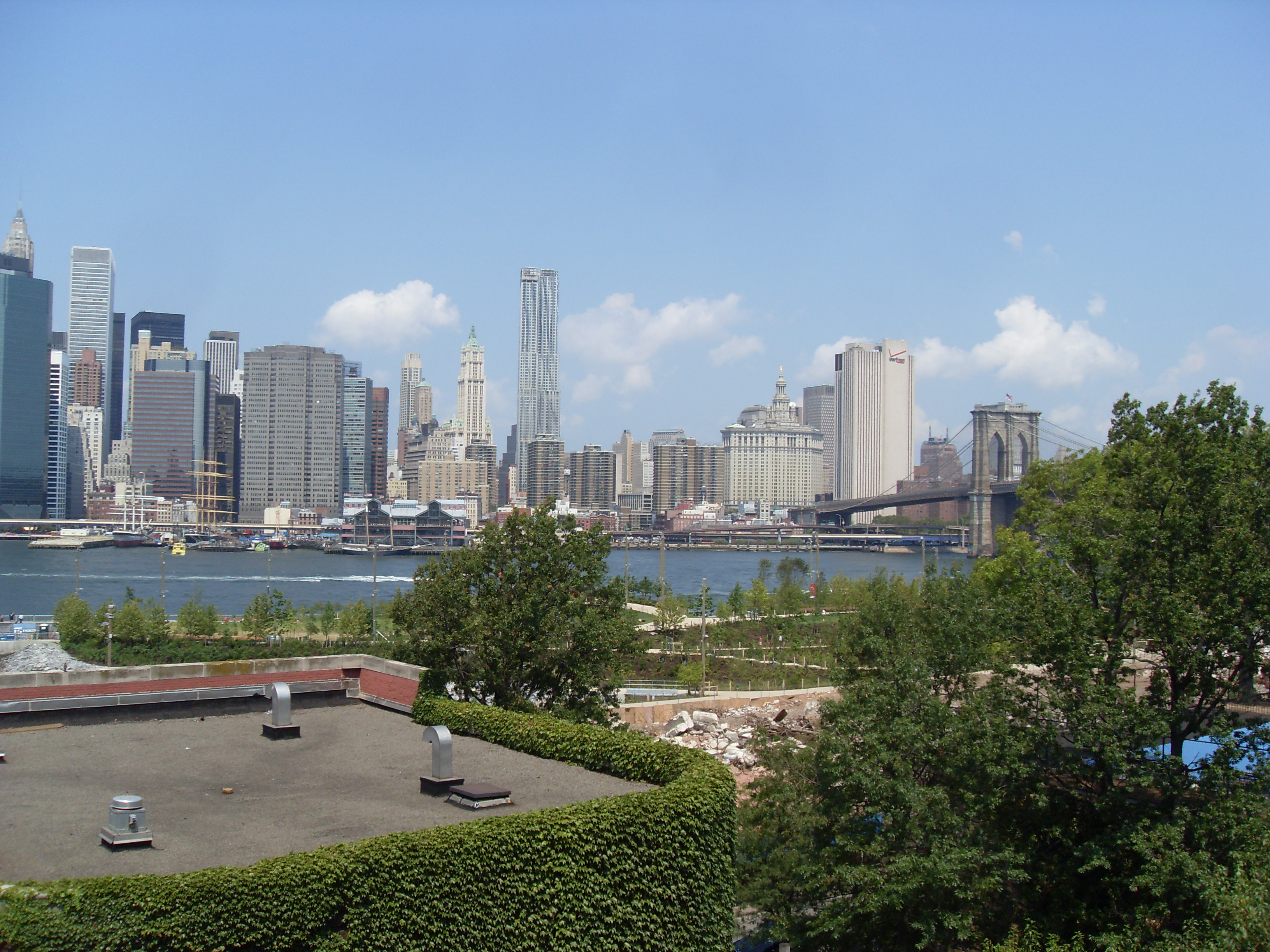 Overview of the Brooklyn Bridge Park with Manhattan and the Brooklyn Bridge in background